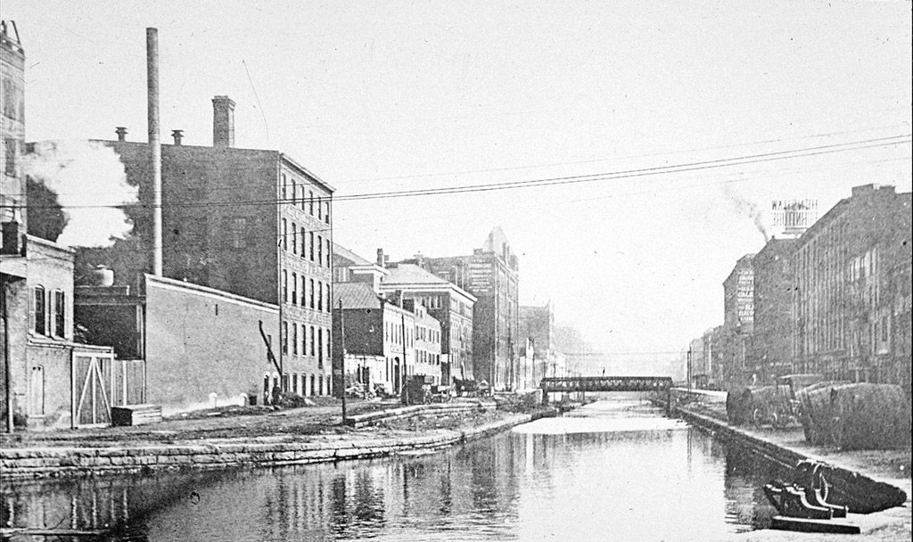 Canal (before it was made into a parkway), view down canal, Cincinnati, OH